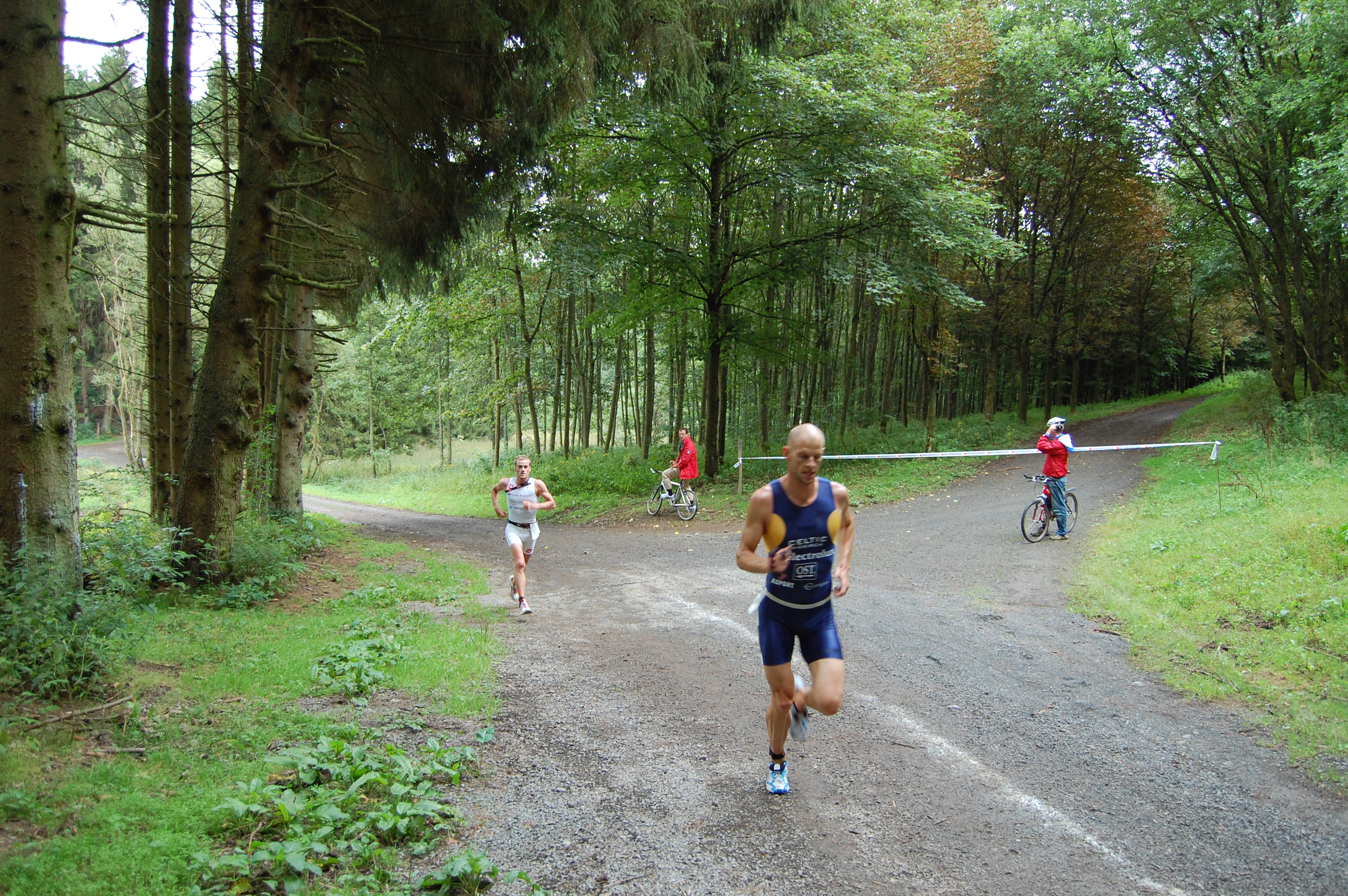 Dirk Bockel running away from Peter Croes at the 2007 International Weiswampach Triathlon.